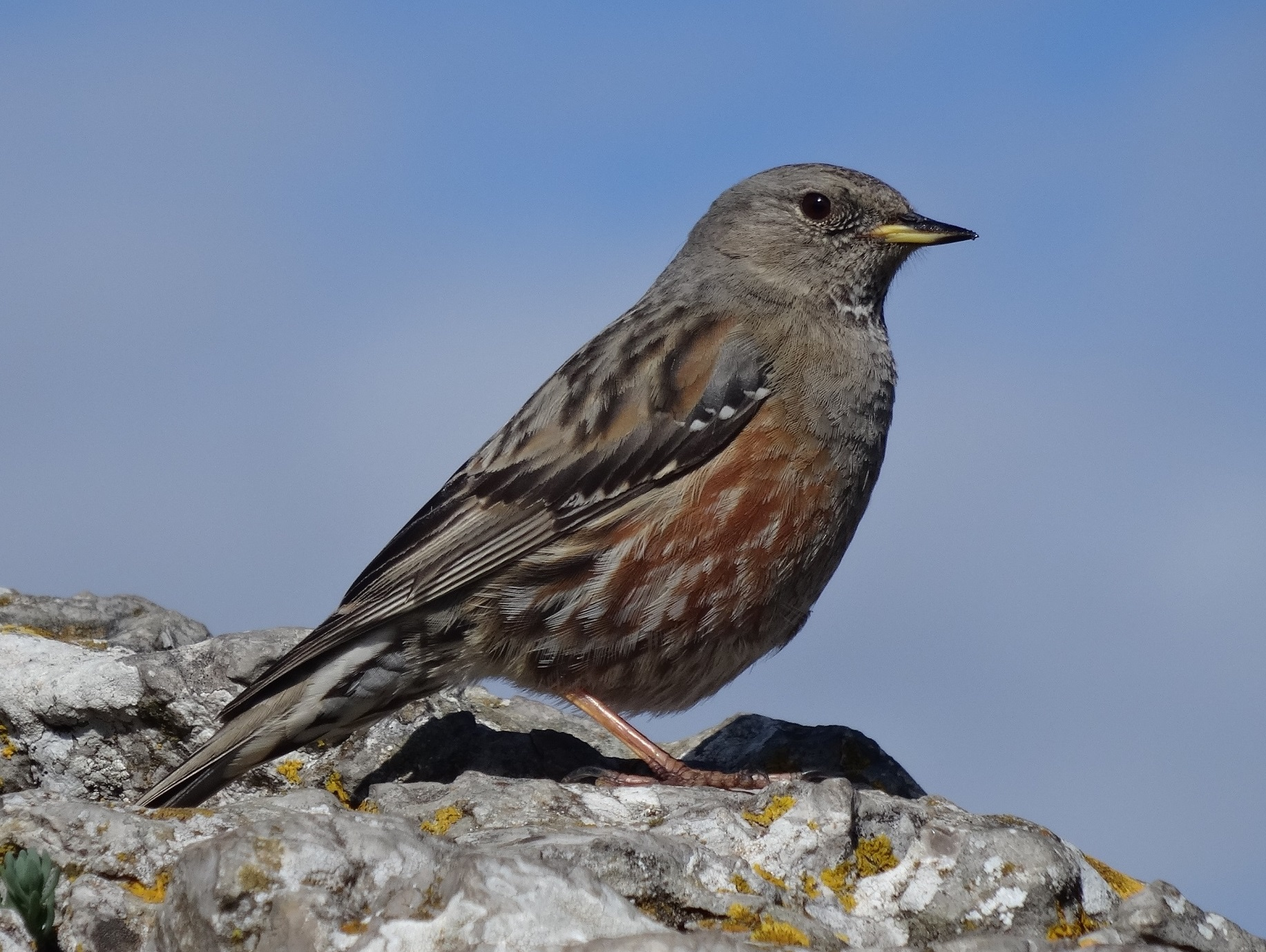 Alpine accentor (Prunella collaris) overwintering at Pic Saint-Loup, Hérault, France, 02/27/15.